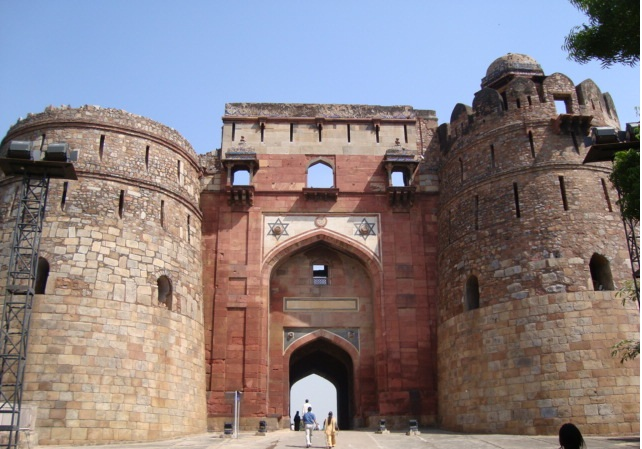 The Gateway Of Purana Qila